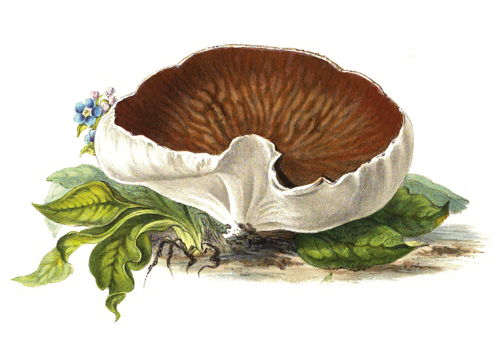 Illustration of Bleach Cup (Disciotis venosa)